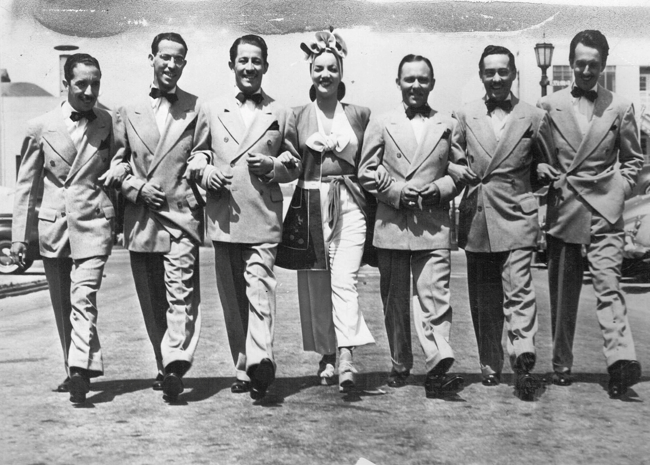 Carmen Miranda (ao centro) durante intervalo das filmagens do filme, Minha Secretária Brasileira (Título em inglês: Springtime in the Rockies), por volta de 1942.